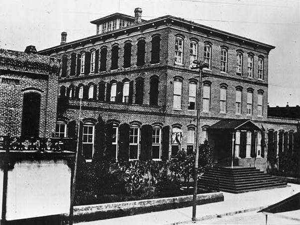 Vicente Martinez Ybor's First Cigar Factory, 1916 North Fourteenth Street, Ybor City, Tampa, Hillsborough County, Florida, c. en:1902